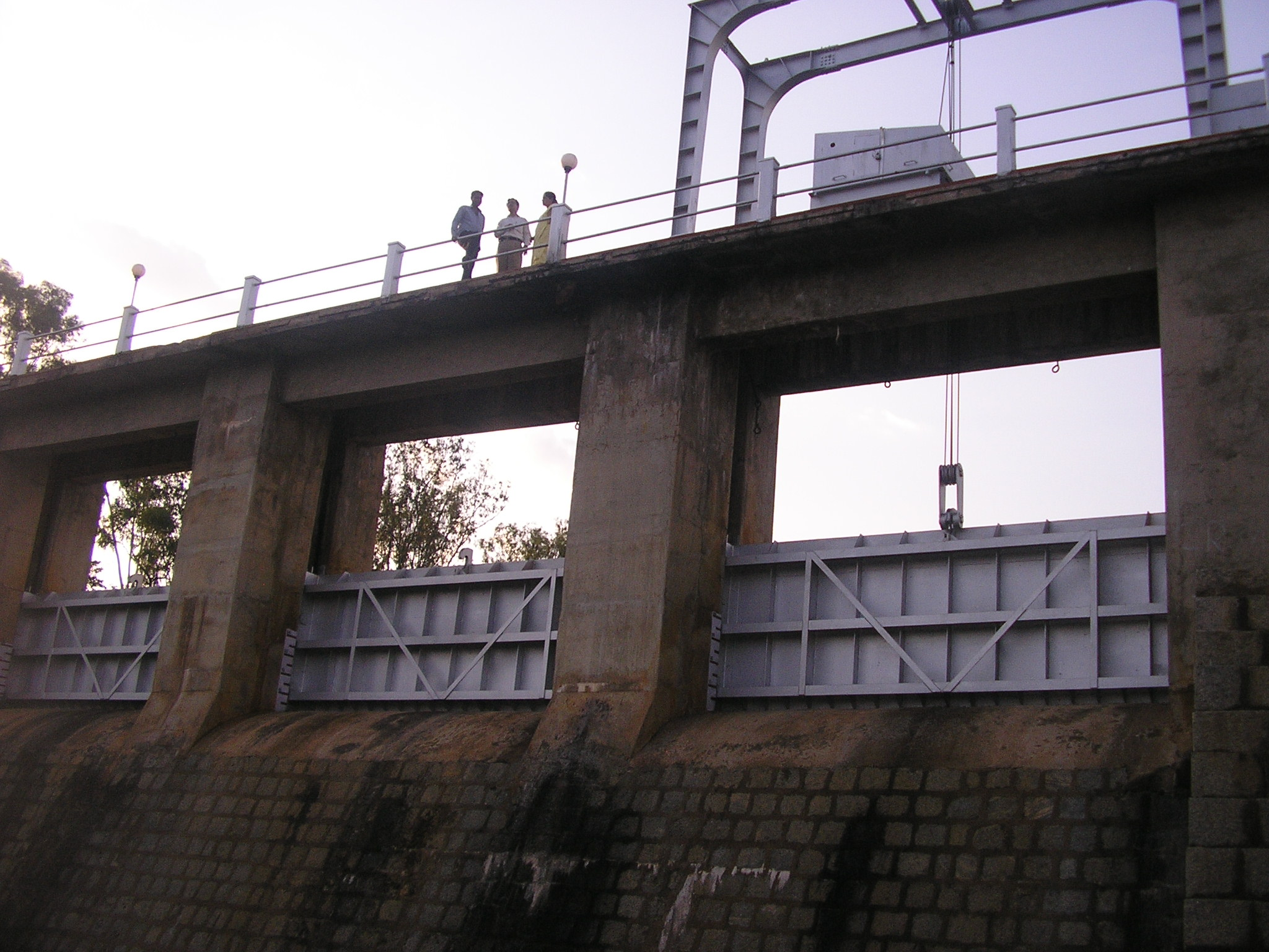 Sanjay Kattimani